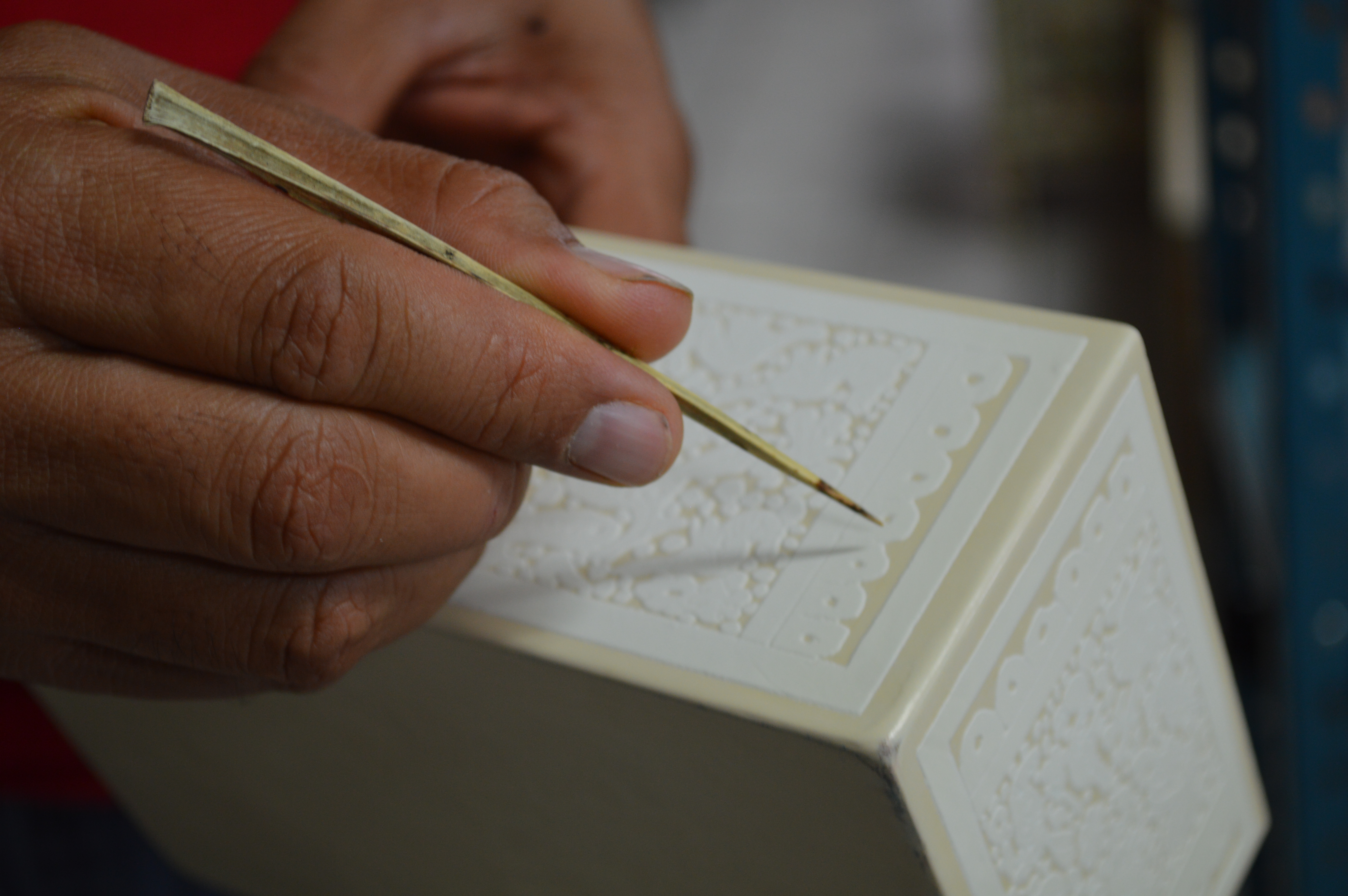 White on white rayado box at the warehouse/workshop of Artesanías Olinala in Olinala, Guerreo